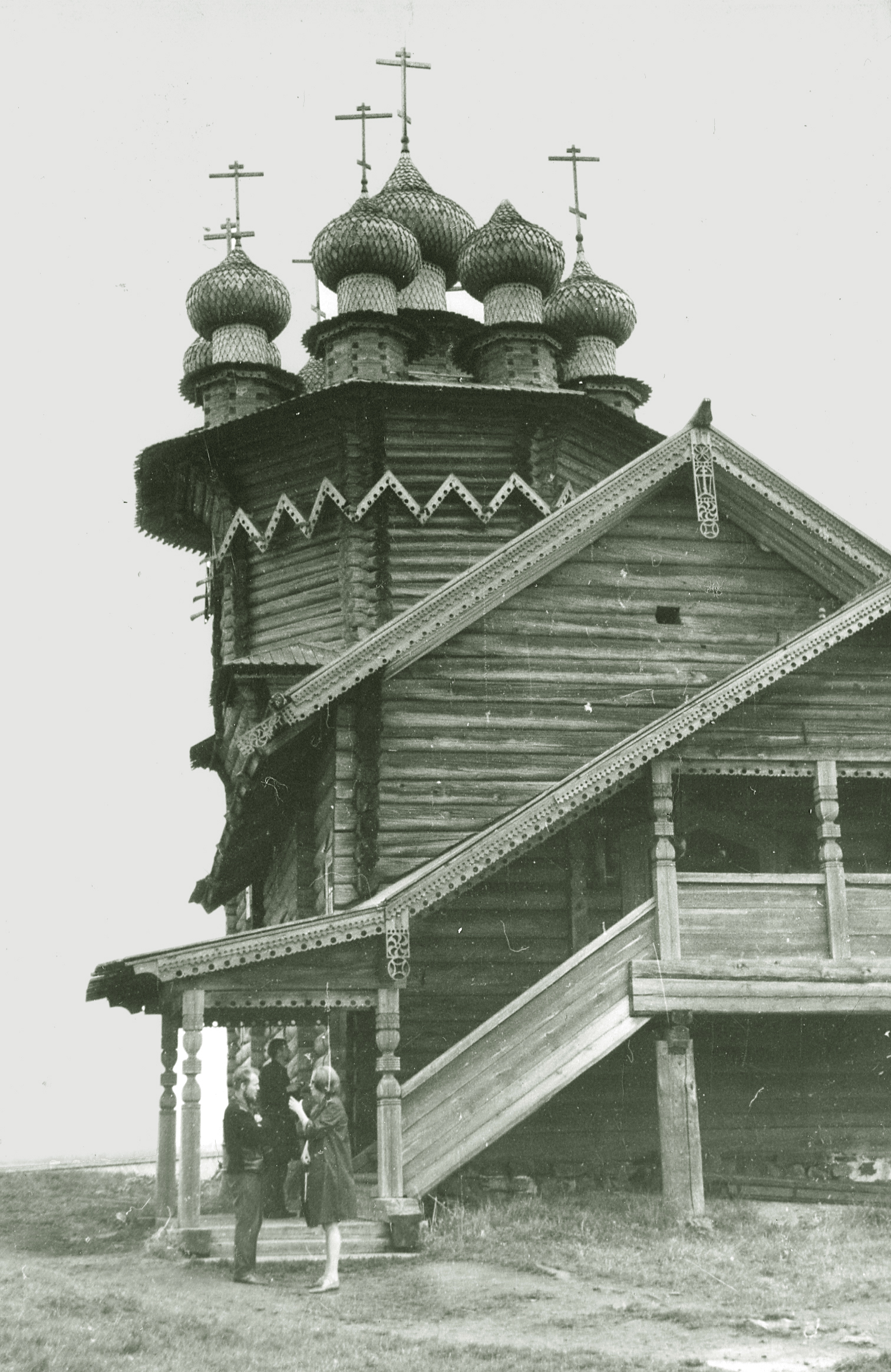 Kizhi.Intercession_Church.jpg Vitold Muratov 1970